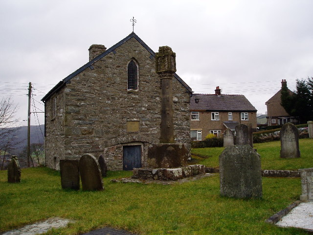 Part of St Mary's parish churchyard, Derwen, Denbighshire, showing the late Mediæval stone cross